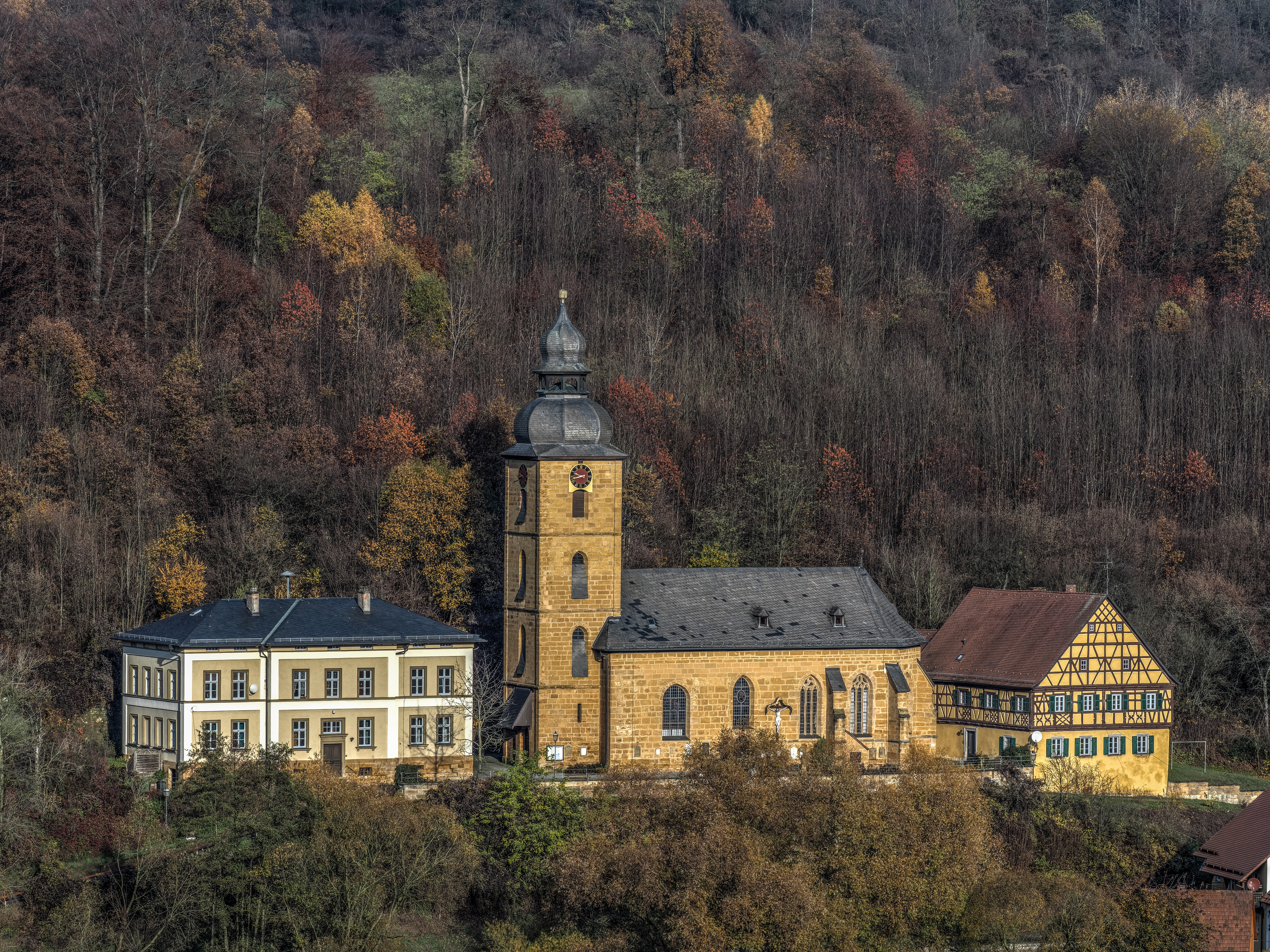 Parish Church in Weichenwasserlos